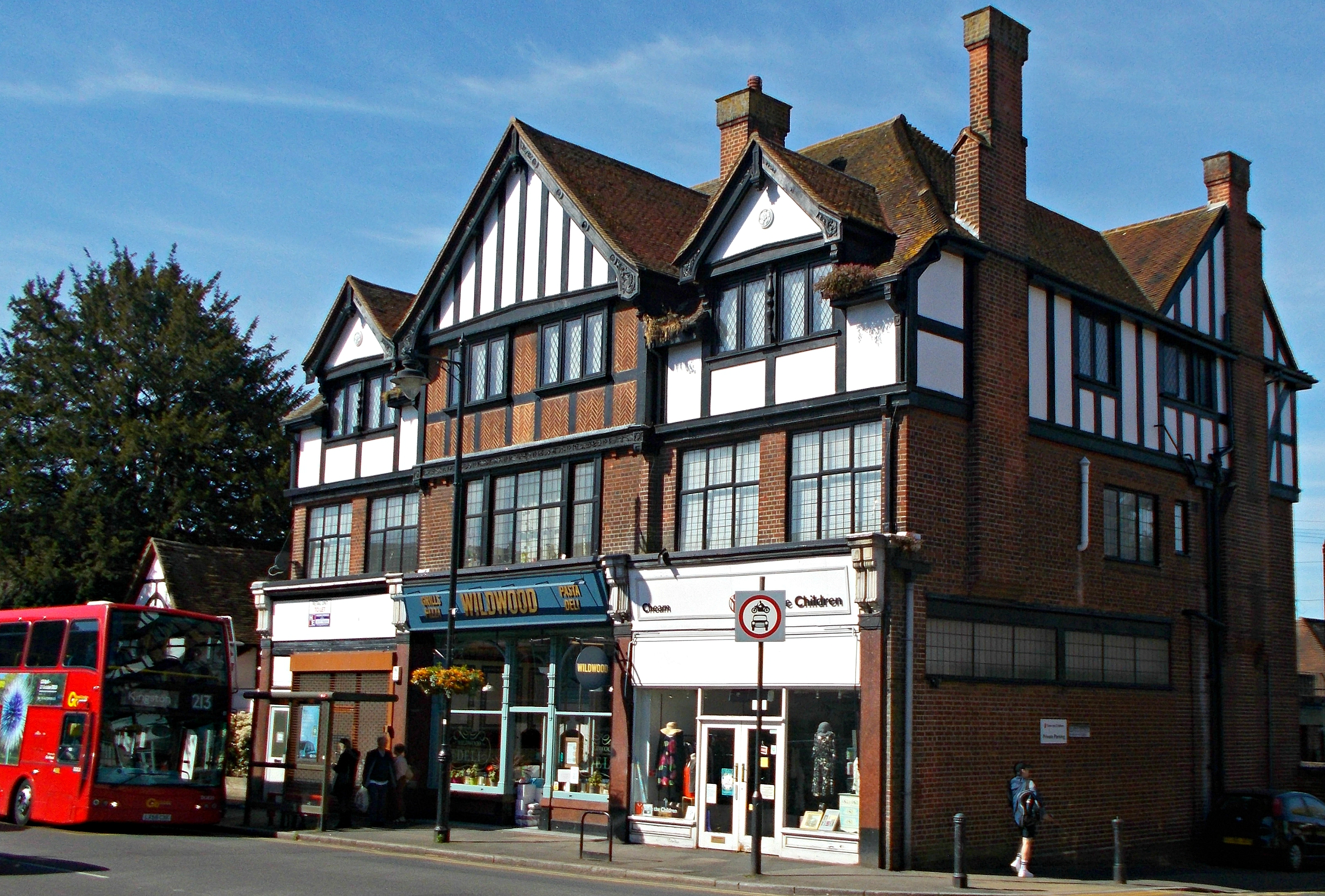 Cheam Village is a pleasant, leafy area of London about 12 miles from the centre of the city.